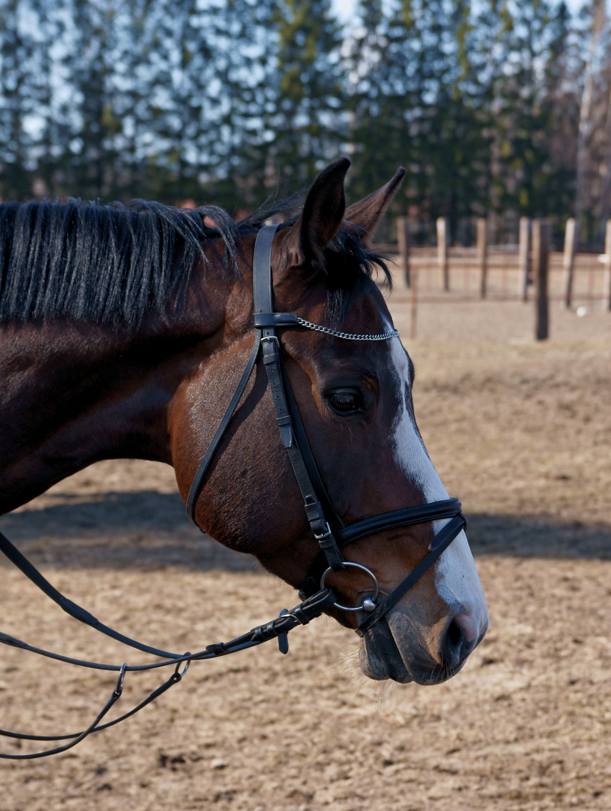 A Finnish Warmblood gelding.